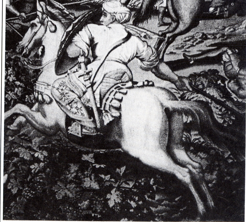 Battle_of_Tunis__1534_Spahi_of_the_Regency_fighting_Spanish_tapestry_Alcazar of Sevilla 1554.